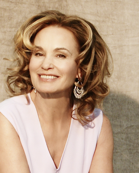 Jessica Lange